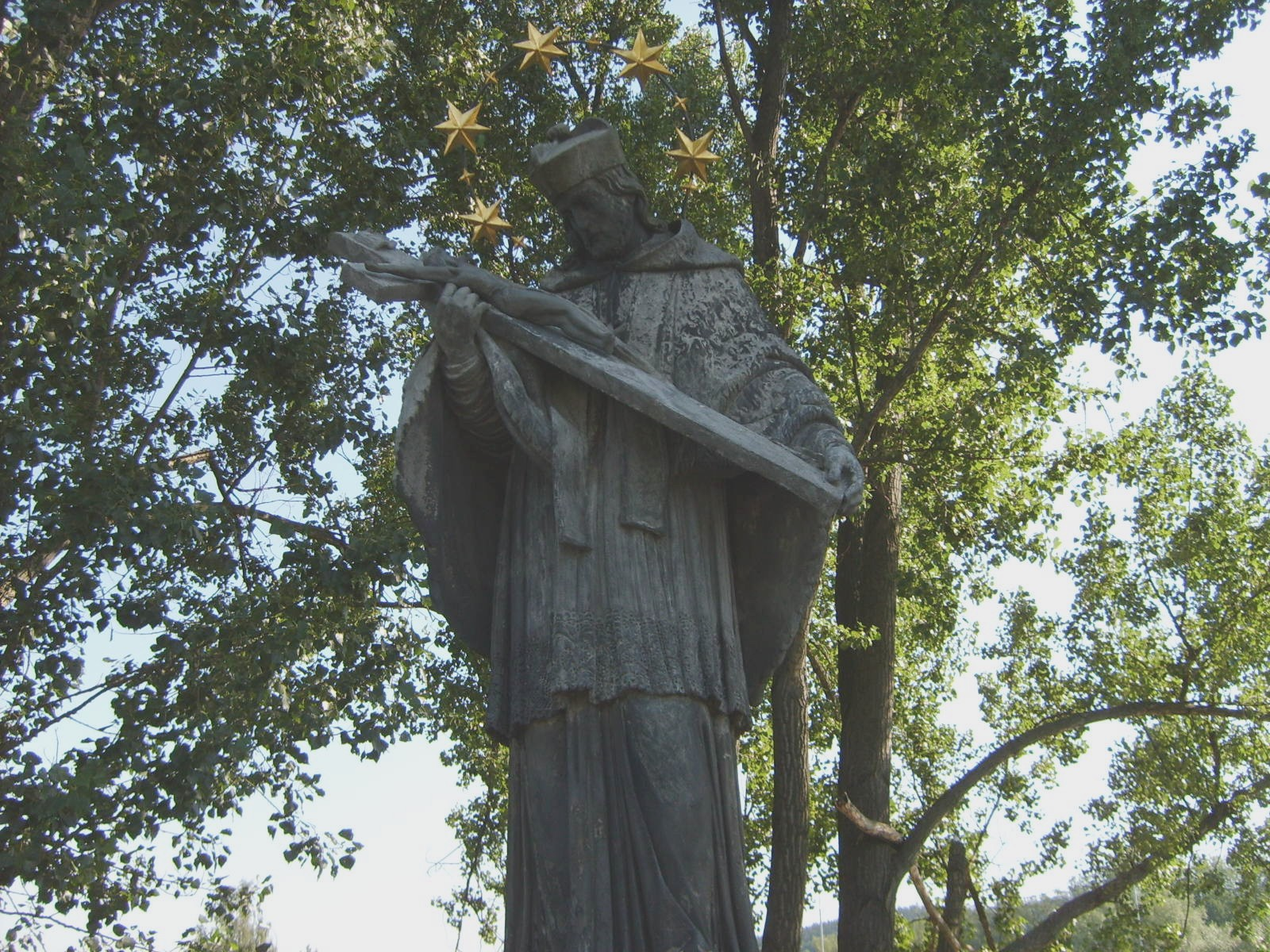 Statue of St. John Nepomuk on the bridge in Švihov, Klatovy District, Czech Republic